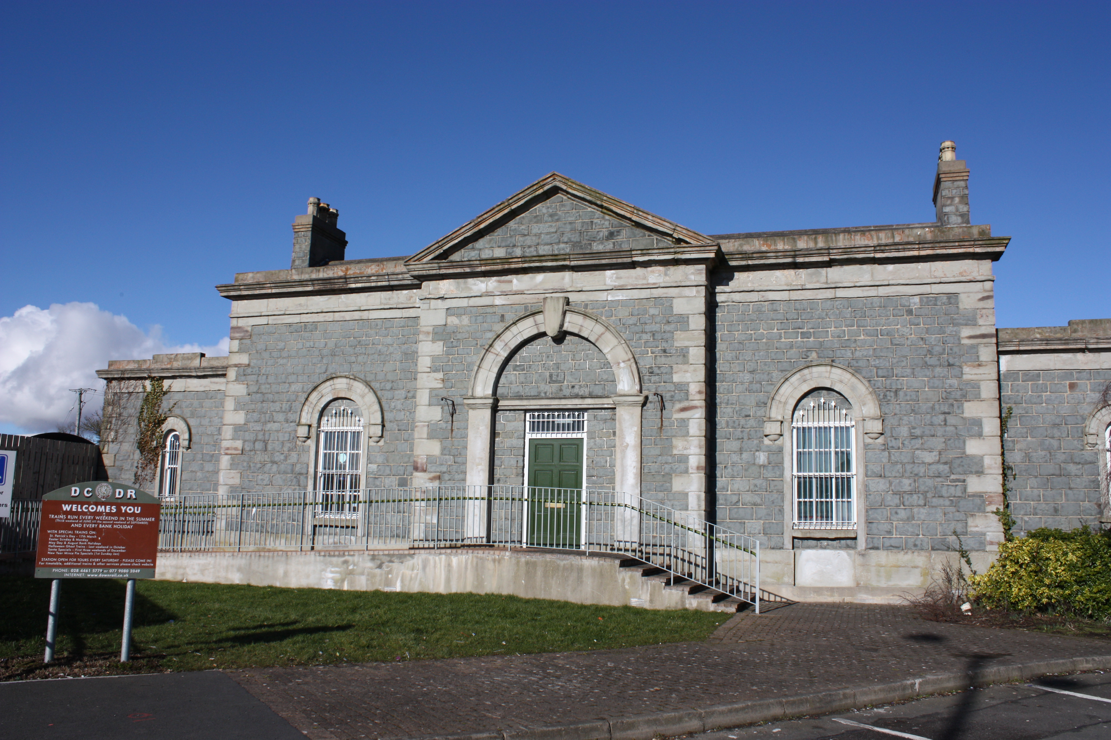 Downpatrick Station, Downpatrick and County Down Railway, Downpatrick, County Down, Northern Ireland, February 2010 (off Market Street)